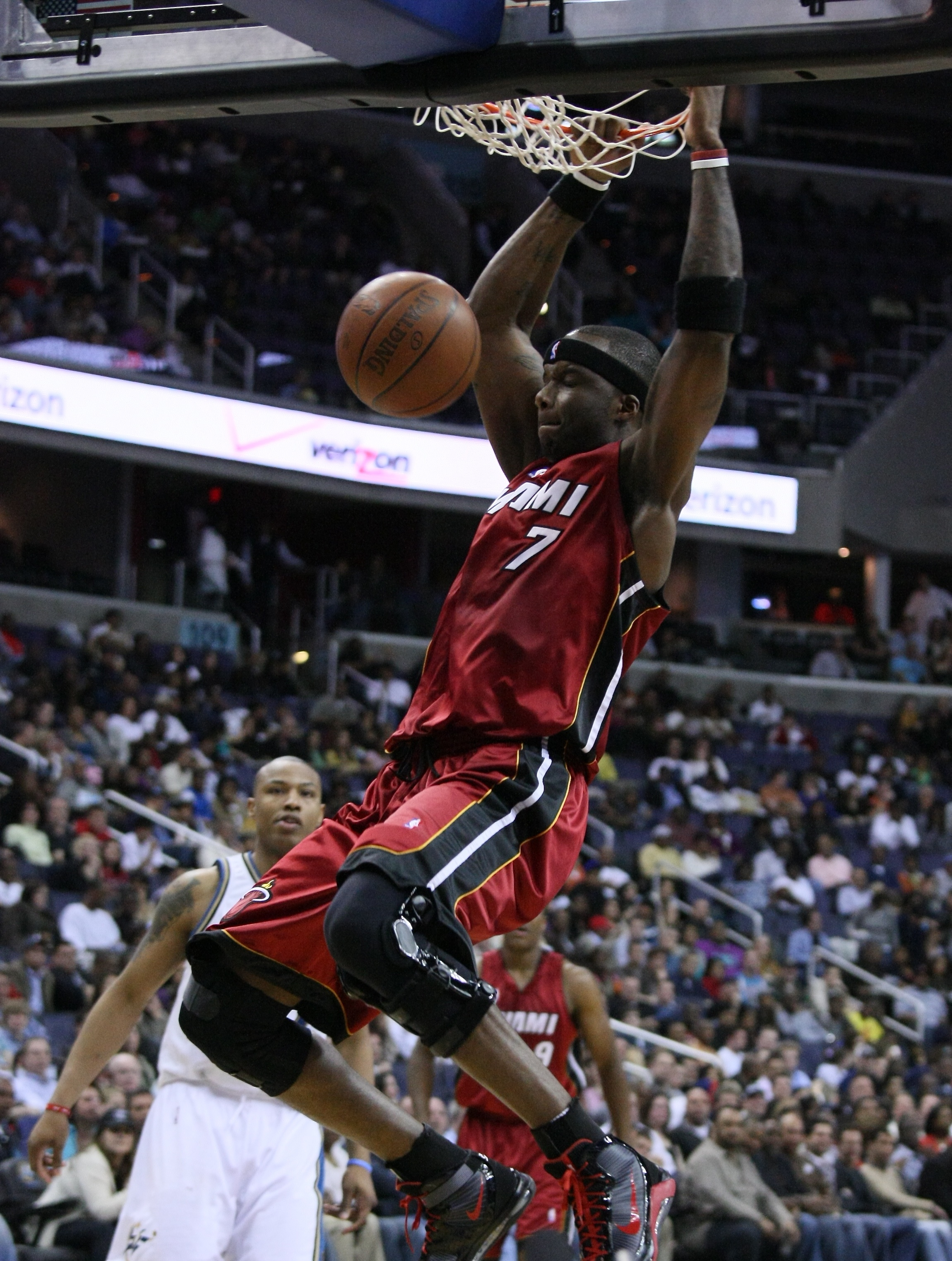 Jermaine O'Neal playing with the Miami Heat